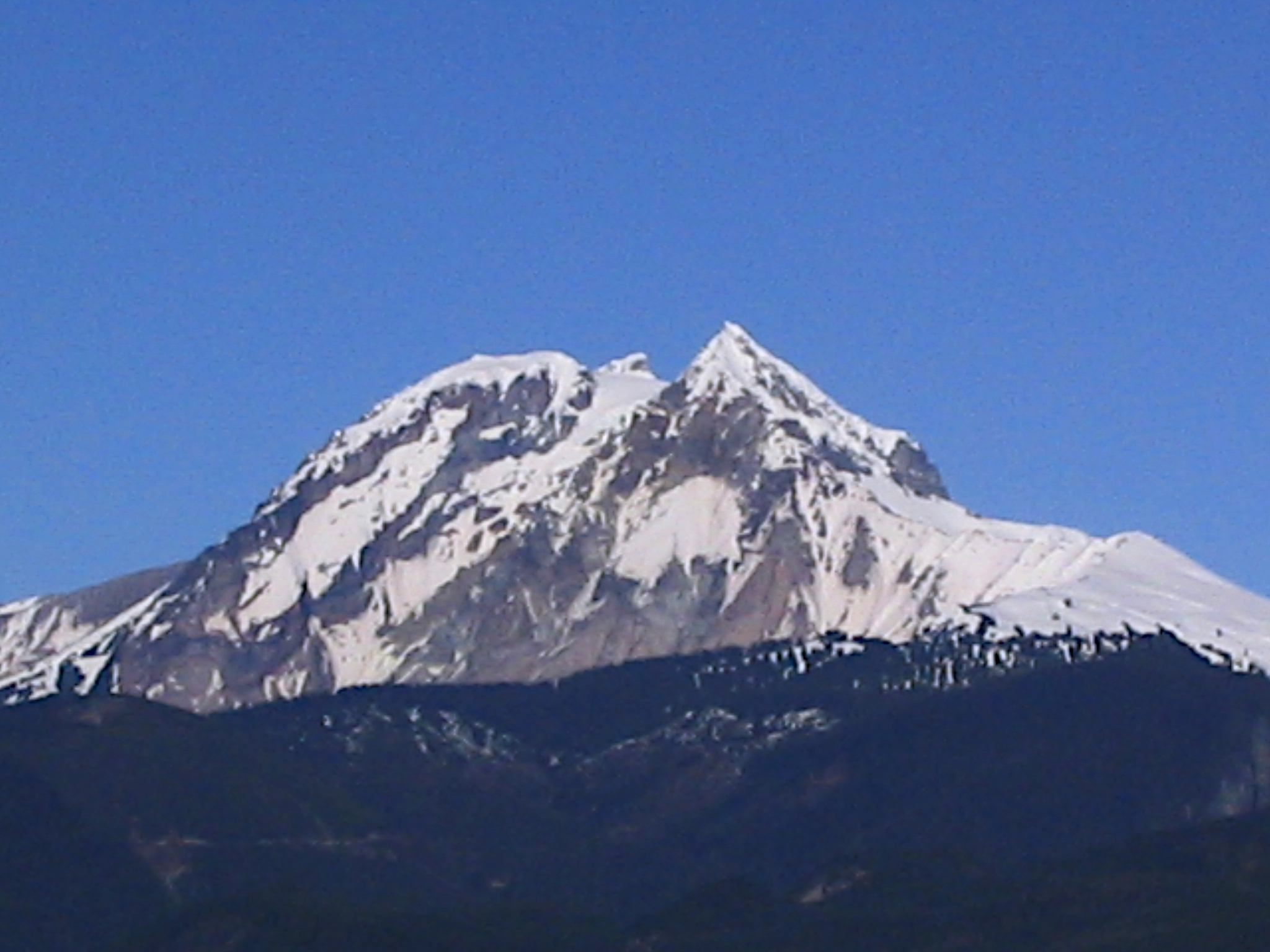 Mount Garibaldi. Taken in Squamish, BC